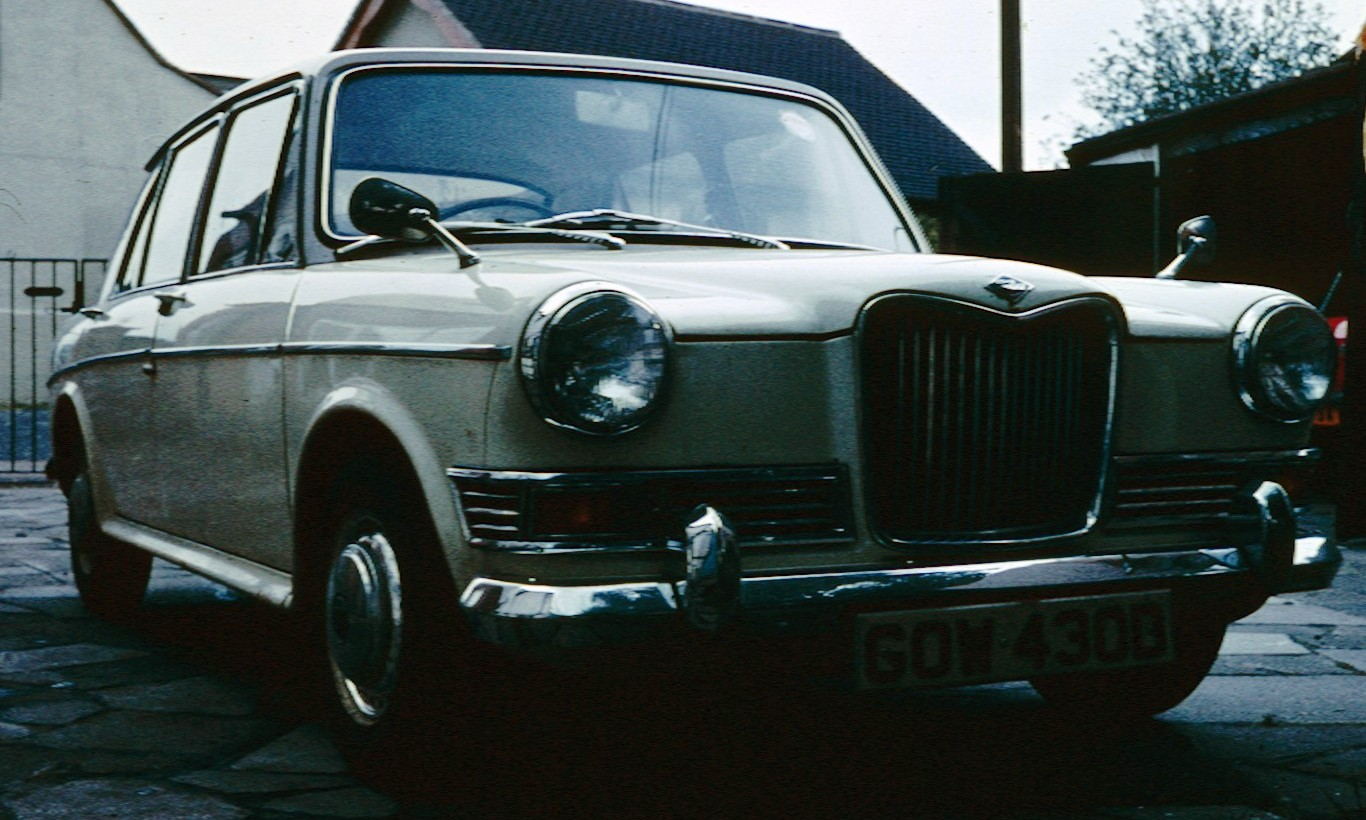 1966 Riley 1100 Kestrel - cut price badge engineering at its most blatant